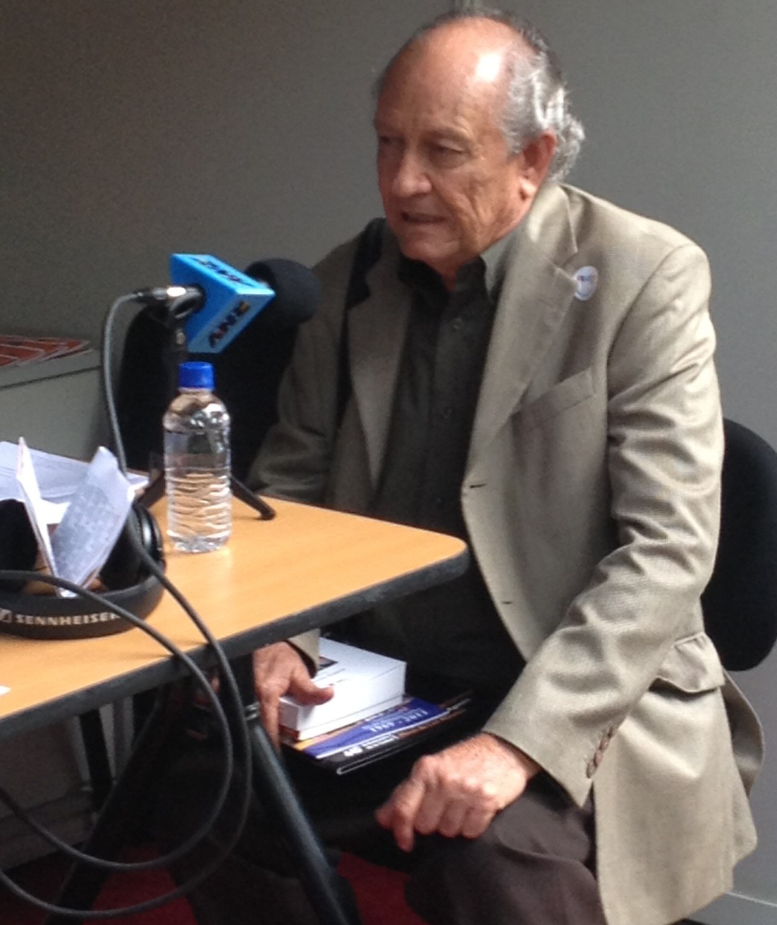 Venezuelan poet Gustavo Pereira (b. 1940) during the International Book Fair of Venezuela (FILVEN, 2013)